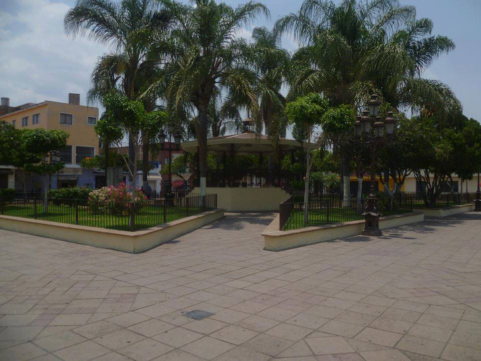 Plaza de San Agustín